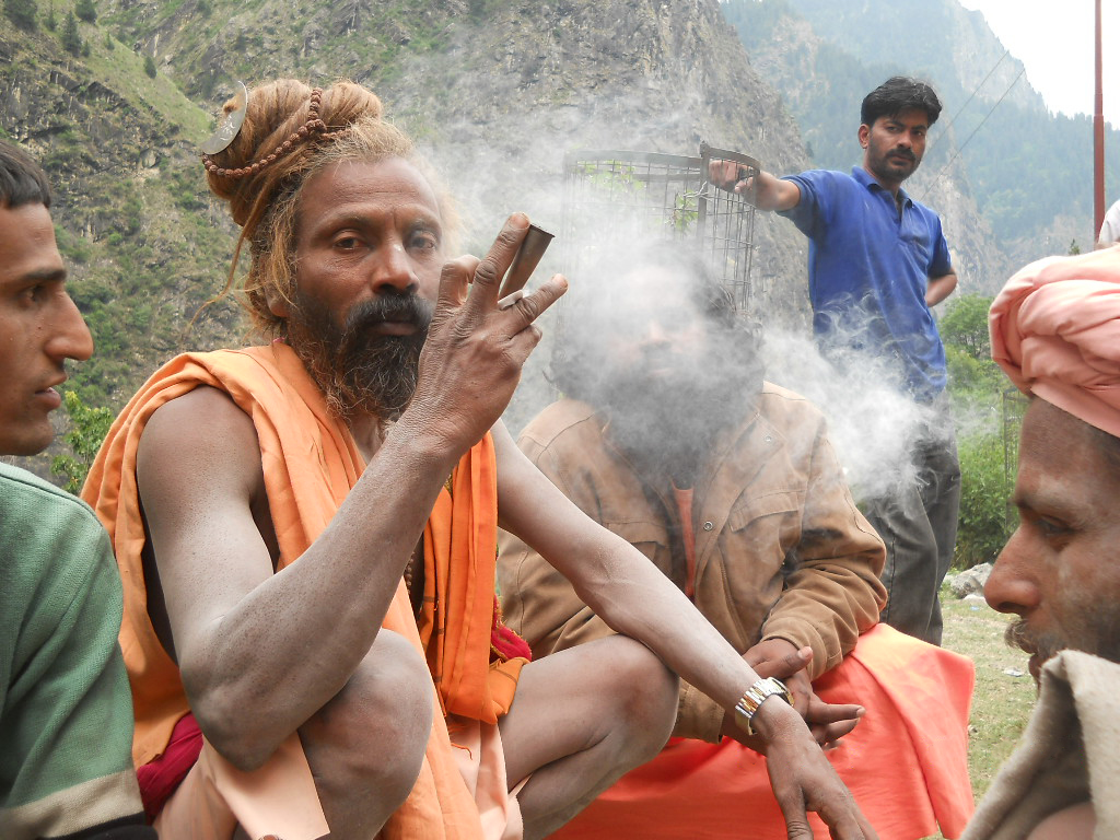 Agori at Badrinath